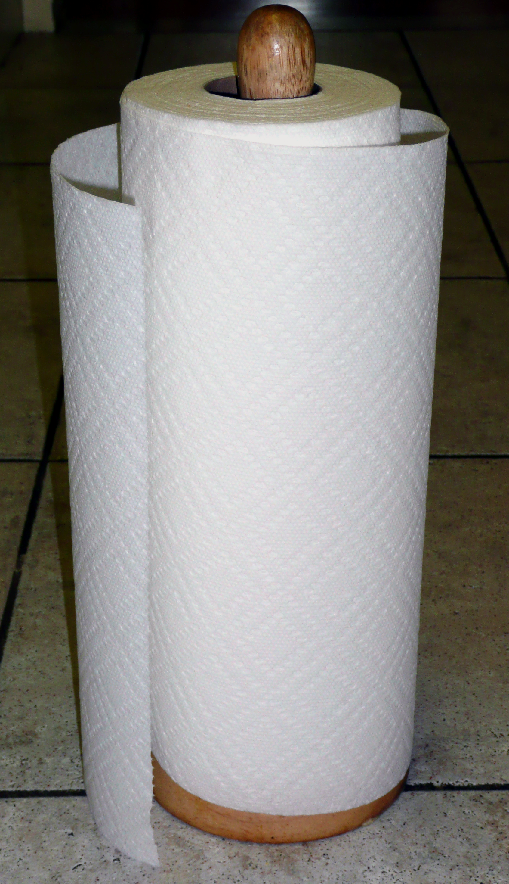 Paper towel roll on stand